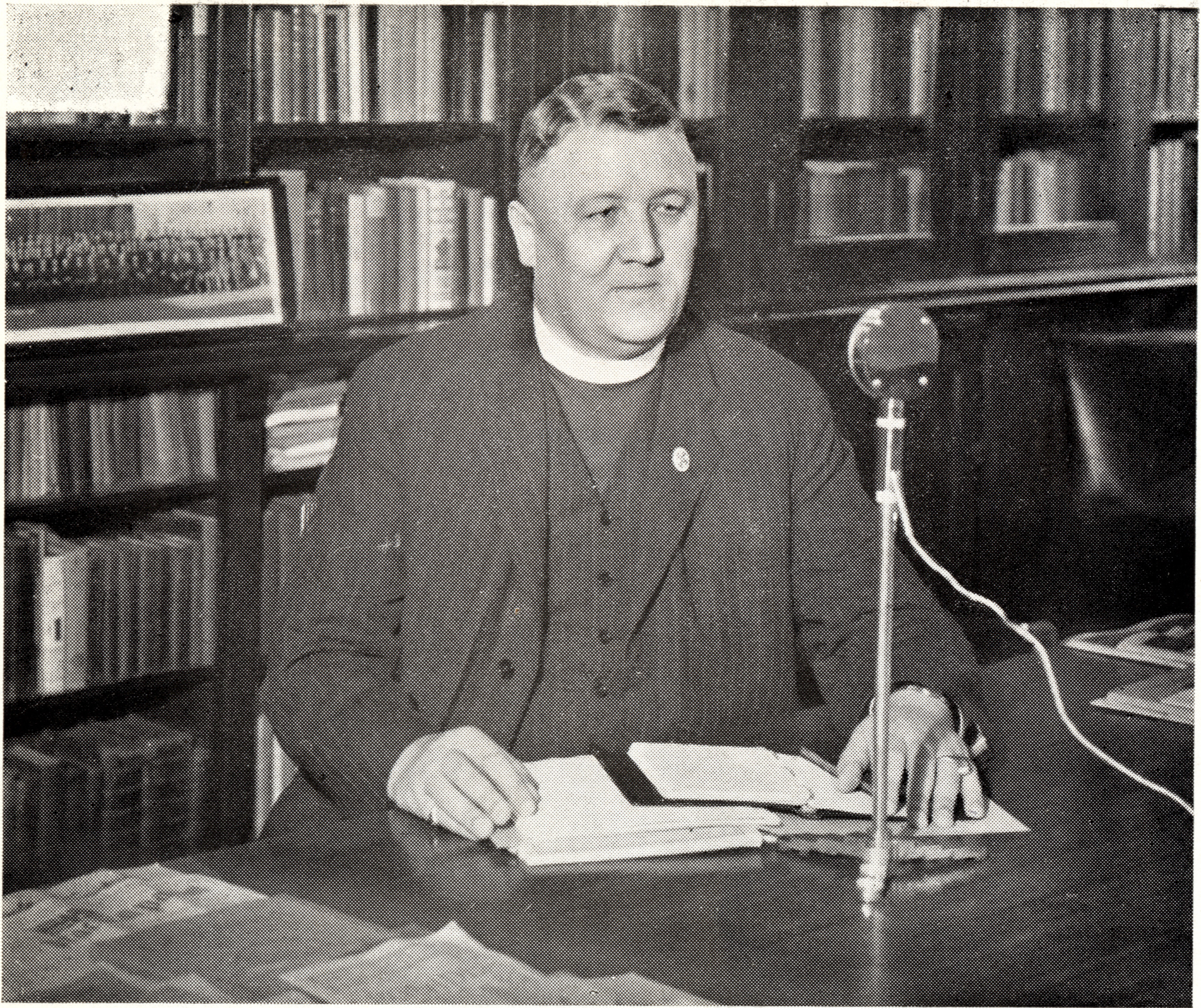 The Most Reverend Howard West Kilvington Mowll, D. D., Lord Archbishop of Sydney: Metropolitan of New South Wales.